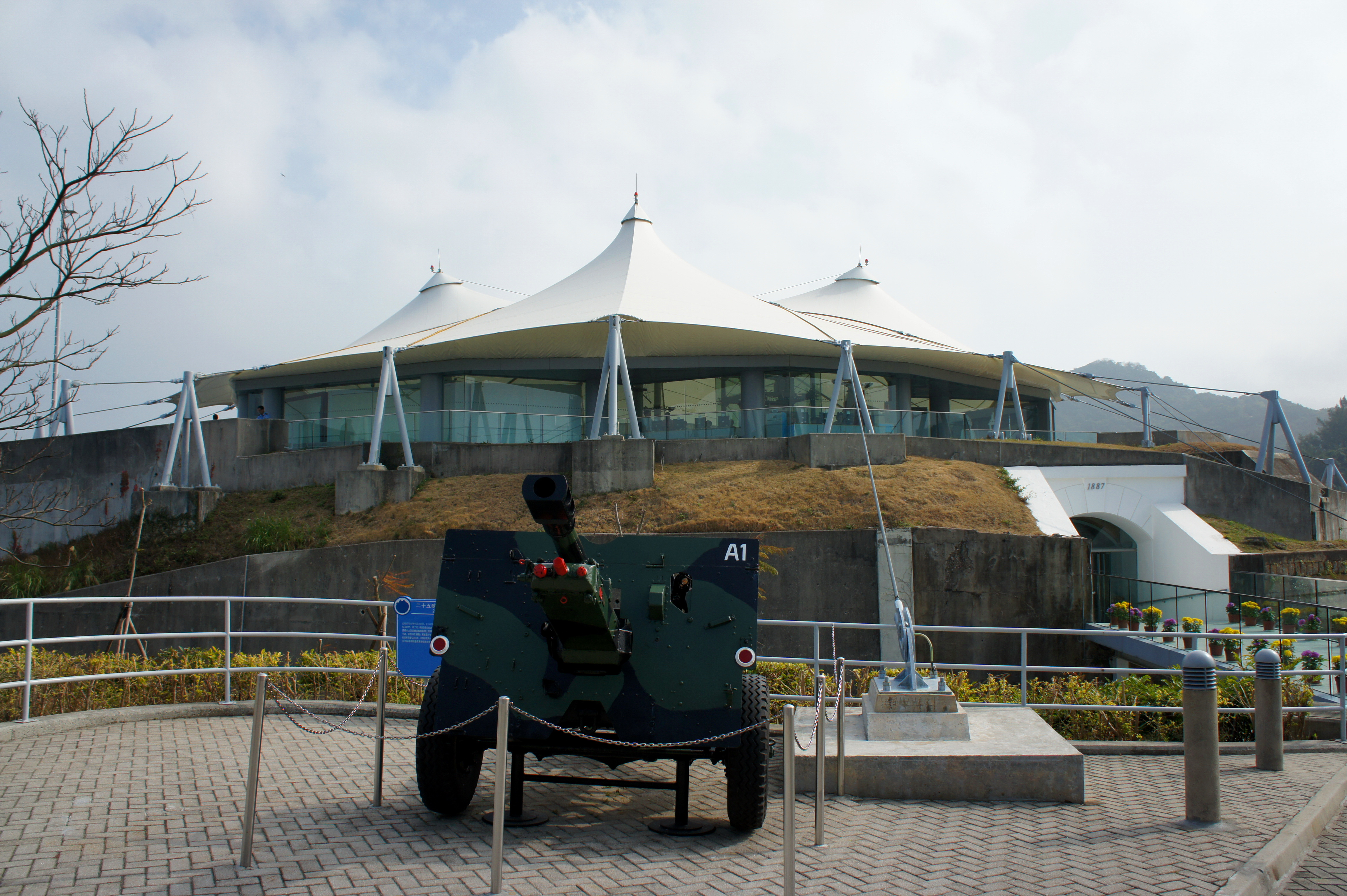 A 25-Pounder Mark II Field Gun exhibit at the Hong Kong Museum of Coastal Defence.